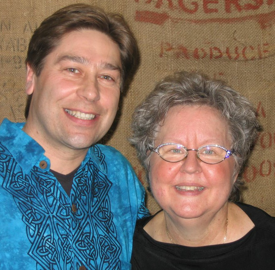 American singer-songwriter Christine Lavin (right) with New Jersey coffee entrepreneur and music promoter Ahrre Maros. Maros promotes two concert series entitled "Coffee with Conscience" and "Powerful Women of Song" which raise tens of thousands of dollars annually for charitable causes, and Lavin is a frequent performer in this series.